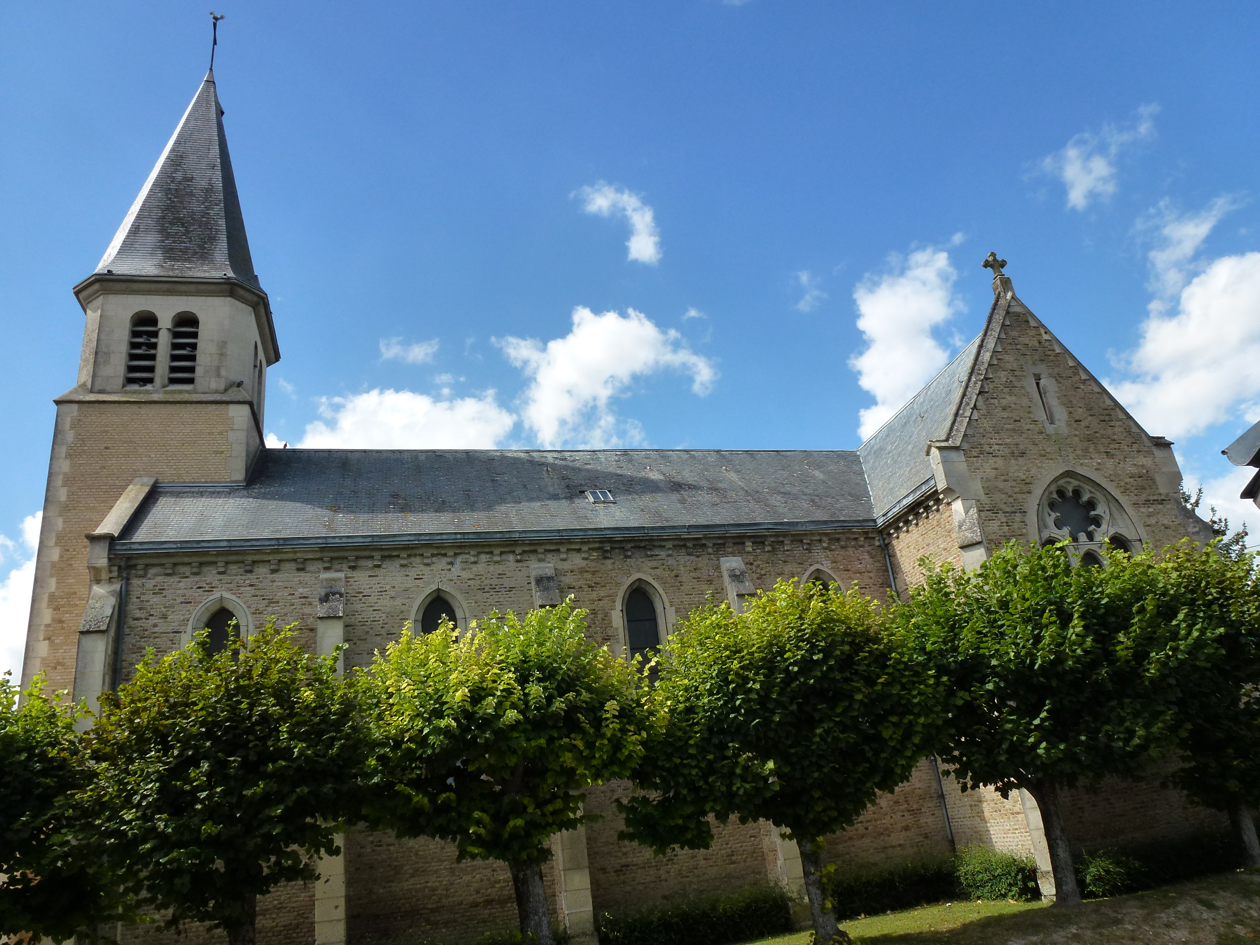 Barby (Ardennes) Saint John the Baptist Church